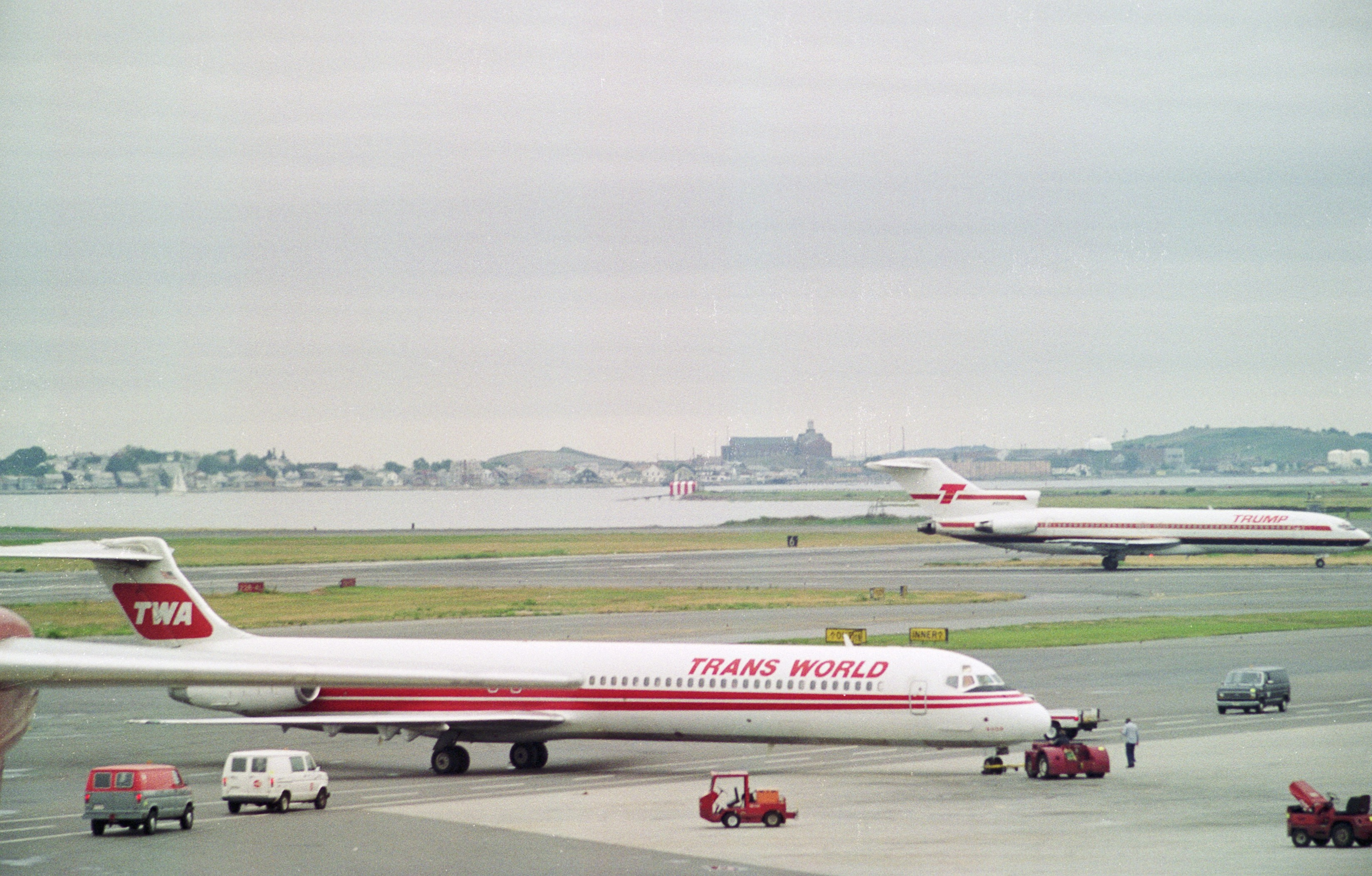 McDonnell Douglas MD-82 (DC-9-82) N954U / 9054 (cn 49426/1399) Trans World Airlines - TWA (Still in service with American Airlines, 2009). Boston - General Edward Lawrence Logan International (BOS / KBOS) USA - Massachusetts, August 1990.